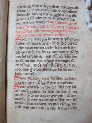 Zürich : 'Richtebrief' (1304)